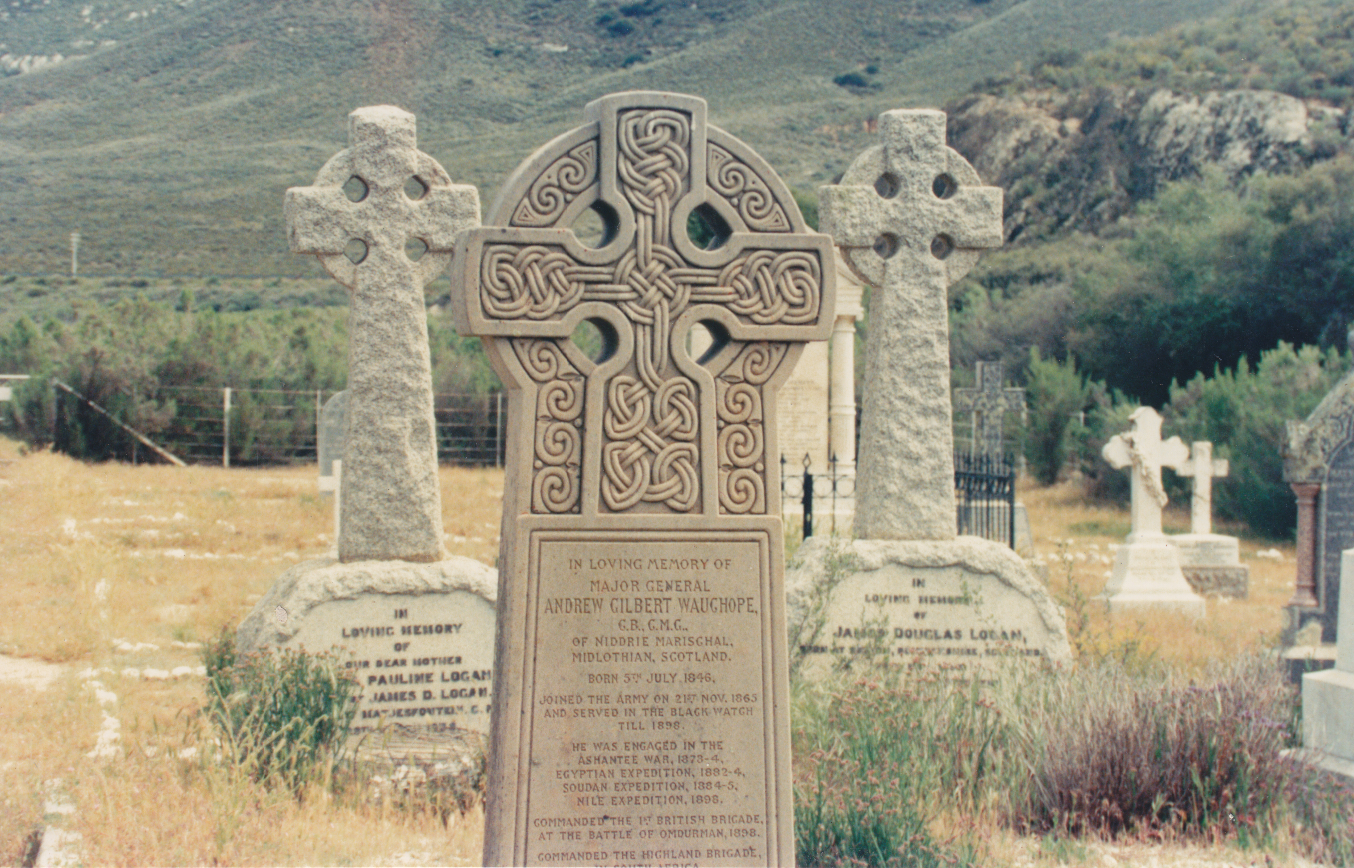 The grave of Major General Andrew Gilbert Wauchope of Niddrie, Scotland, who died of wounds sustained at the battle of Magersfontein. Buried initially with his men there, he was shortly afterwards exhumed and reinterred at Matjiesfontein by James Logan. The grave is simple, but on a nearby hill stands a great memorial obelisk erected by the British Army. Trivia : Wauchope is buried a few yards from renowned cricketer George Lohmann.